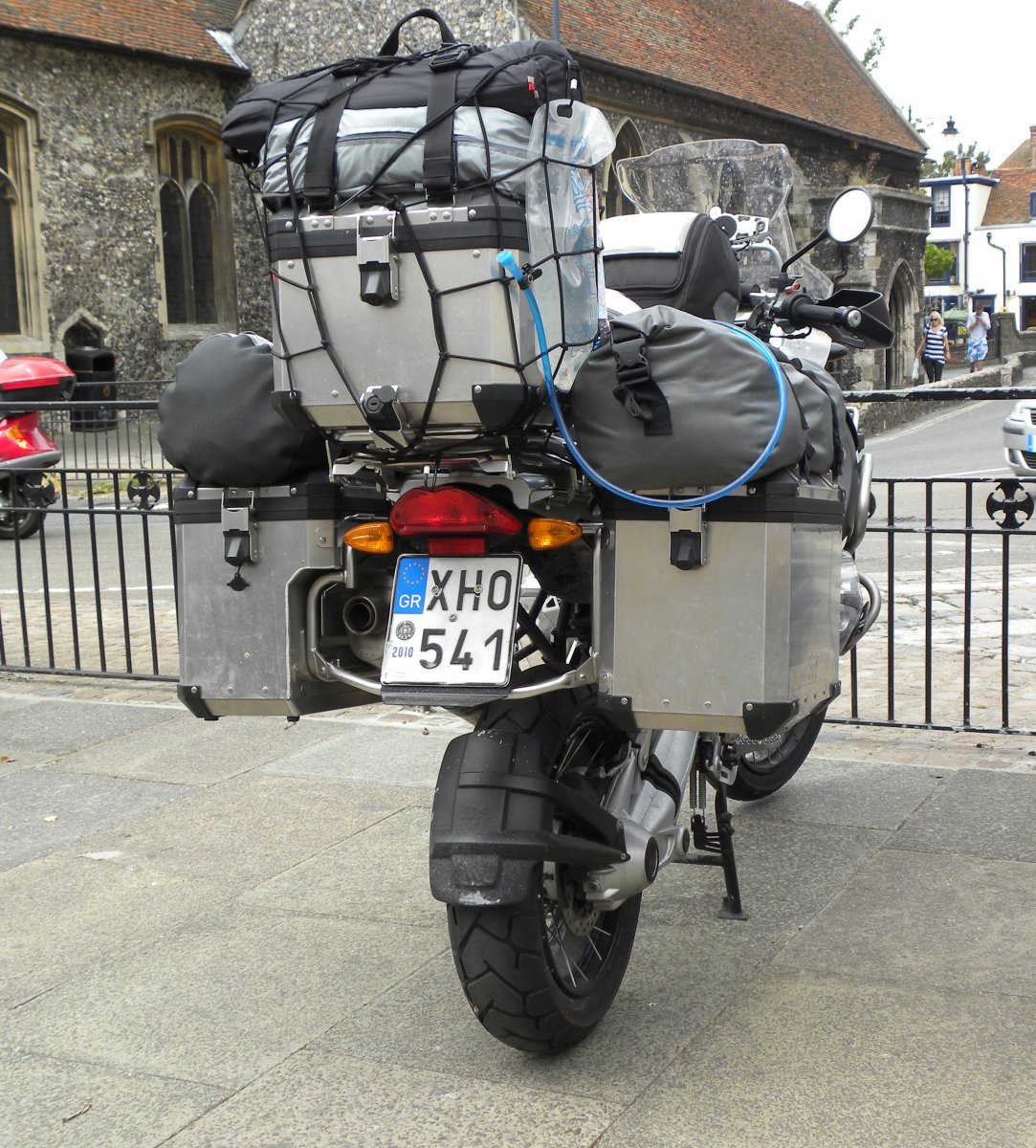 BMW R1200GS Adventure with luggage and a full load